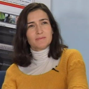 Spanish politician Ángeles González-Sinde.